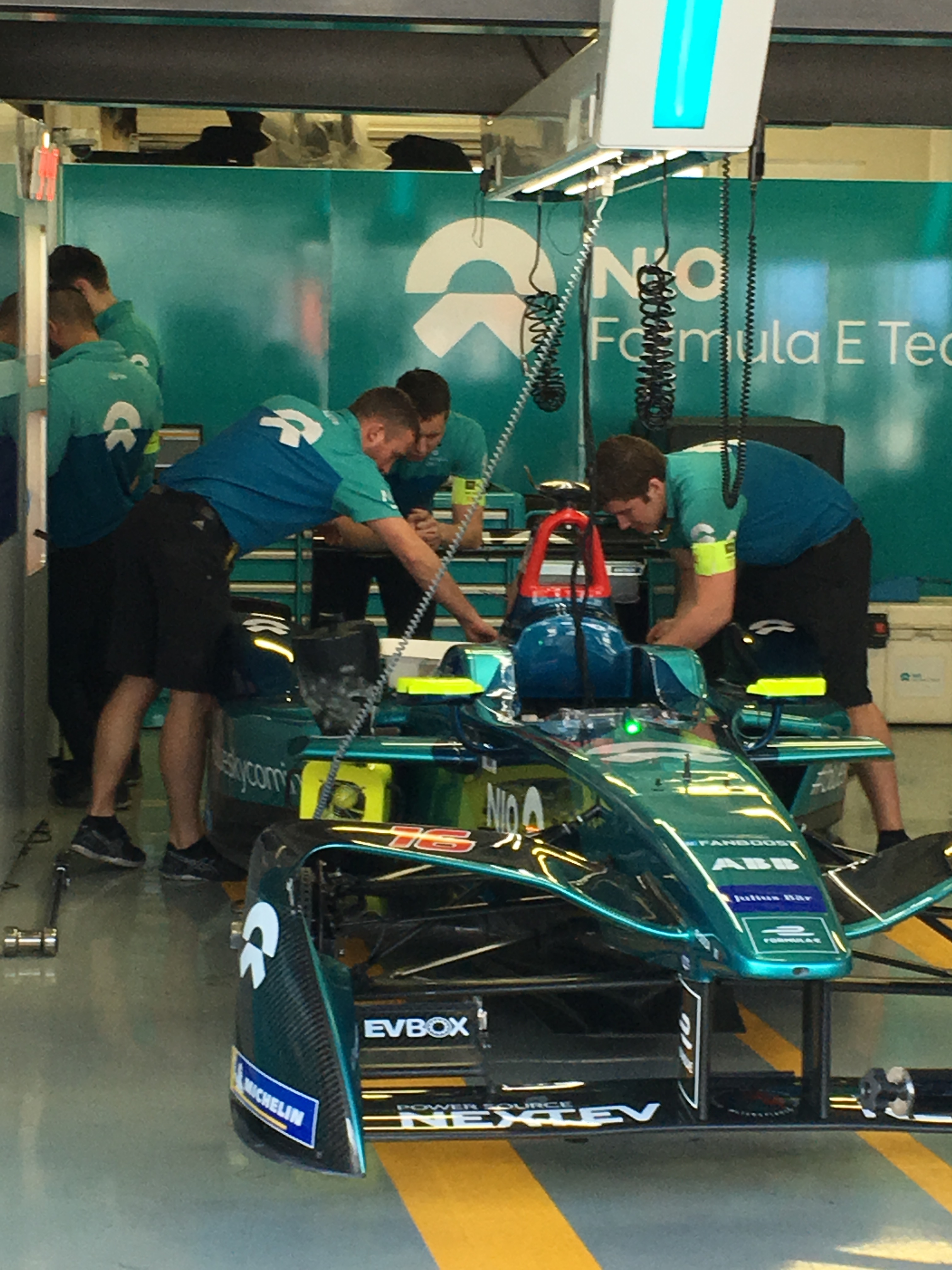 Nio Formula E car in the Formula E Mexico E-Prix 2018